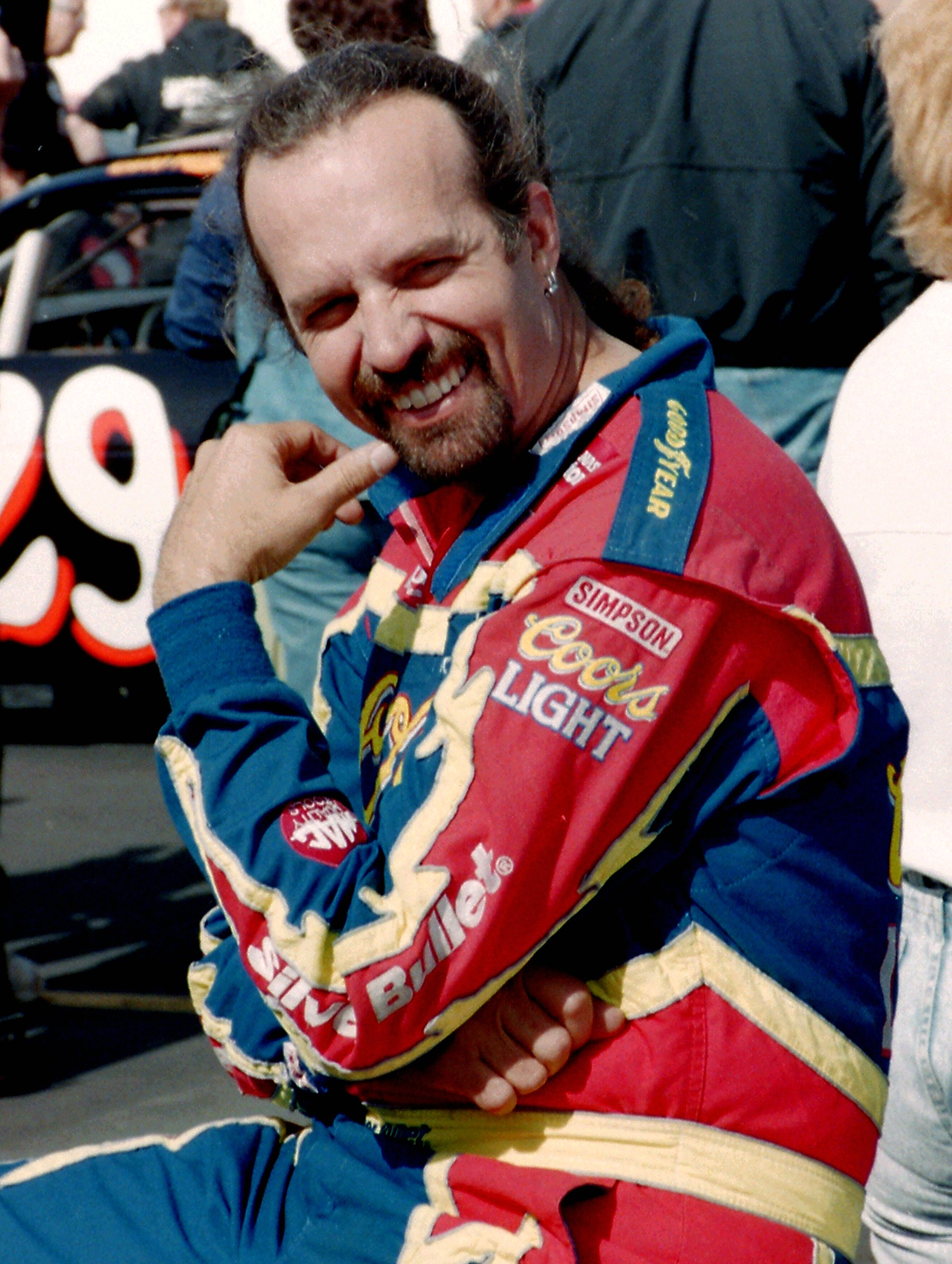 Kyle Petty in 1996